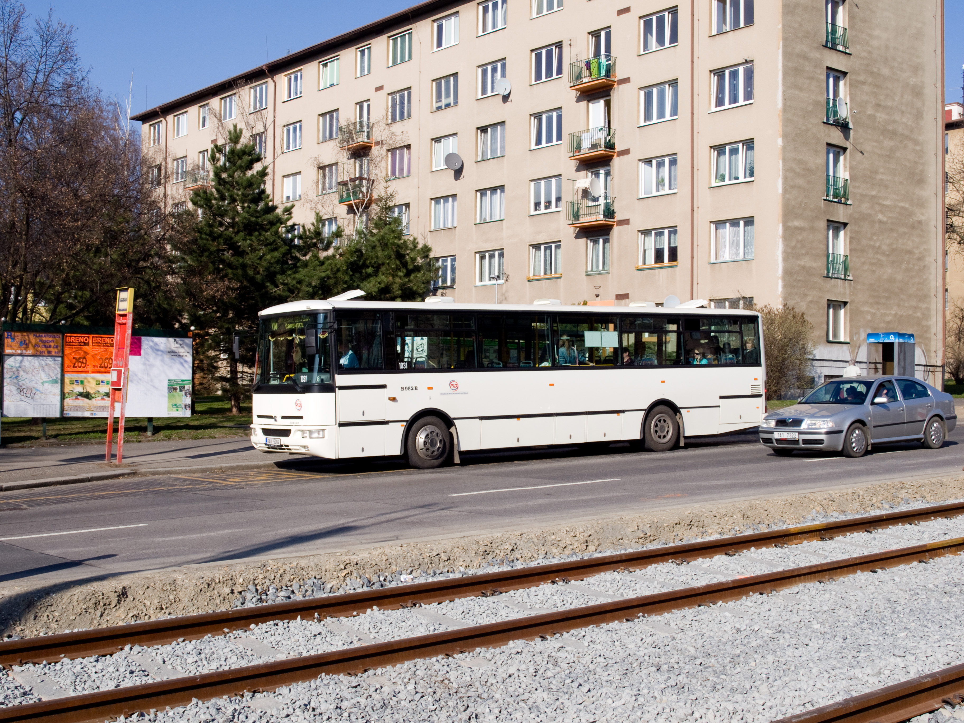 Crossing, Reconstruction of tram track Starý Hloubětín – Lehovec, Prague 14